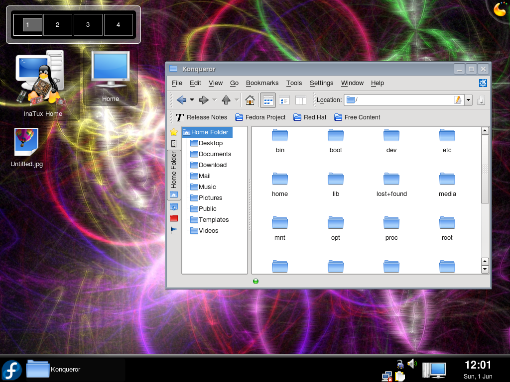 InaTux "Crazy Swirly Colors" used for the wallpaper of this Screen Shot, show KDE 4 with some desktop icon widgets.